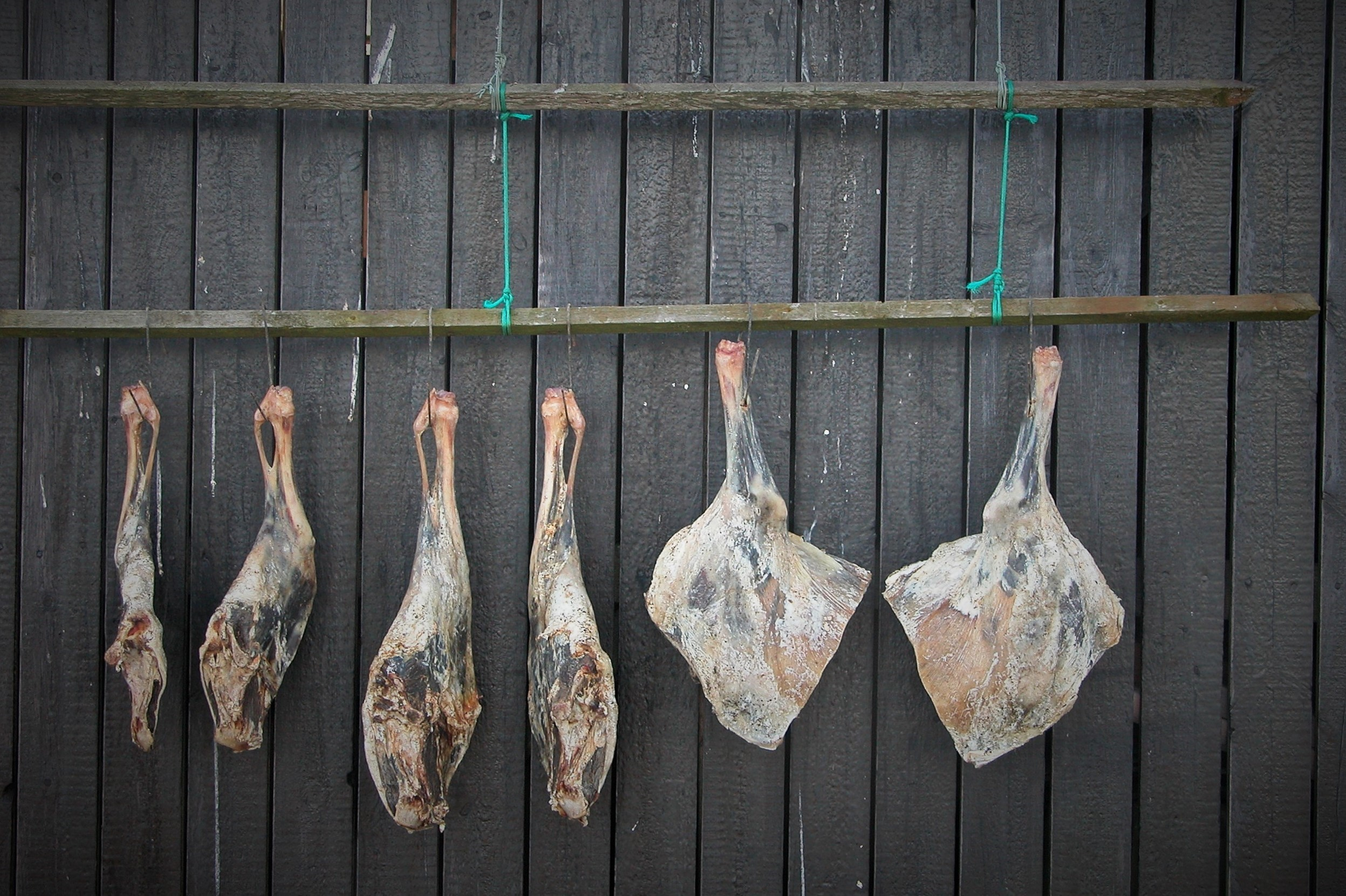 Skerpikjøt is a typical dish of the Faroe Islands. It is a type of wind-dried mutton. Its name literally means "belt meat"